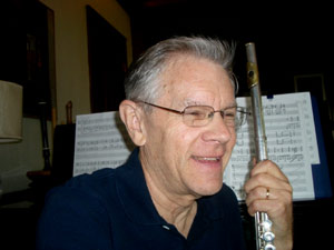 This is an official photo of Fred Tompkins. The copyright belongs to Fred Tompkins.